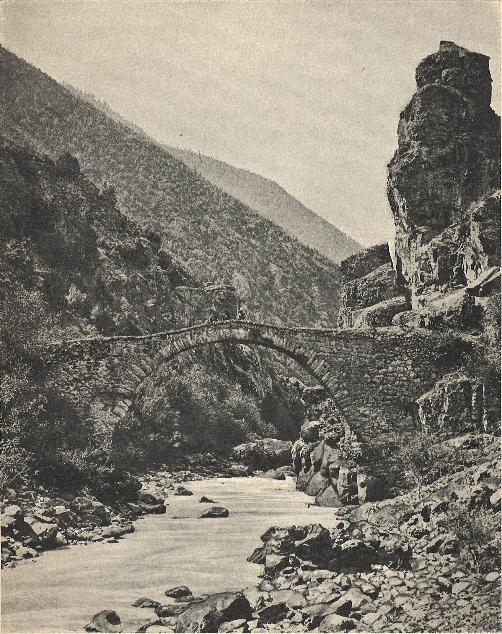 A bridge on the Imerkhevi between Chadili and Tskaros-tavi. From Nicholas Marr's dairy of his travels to Shavsheti and Klarjeti (1911).